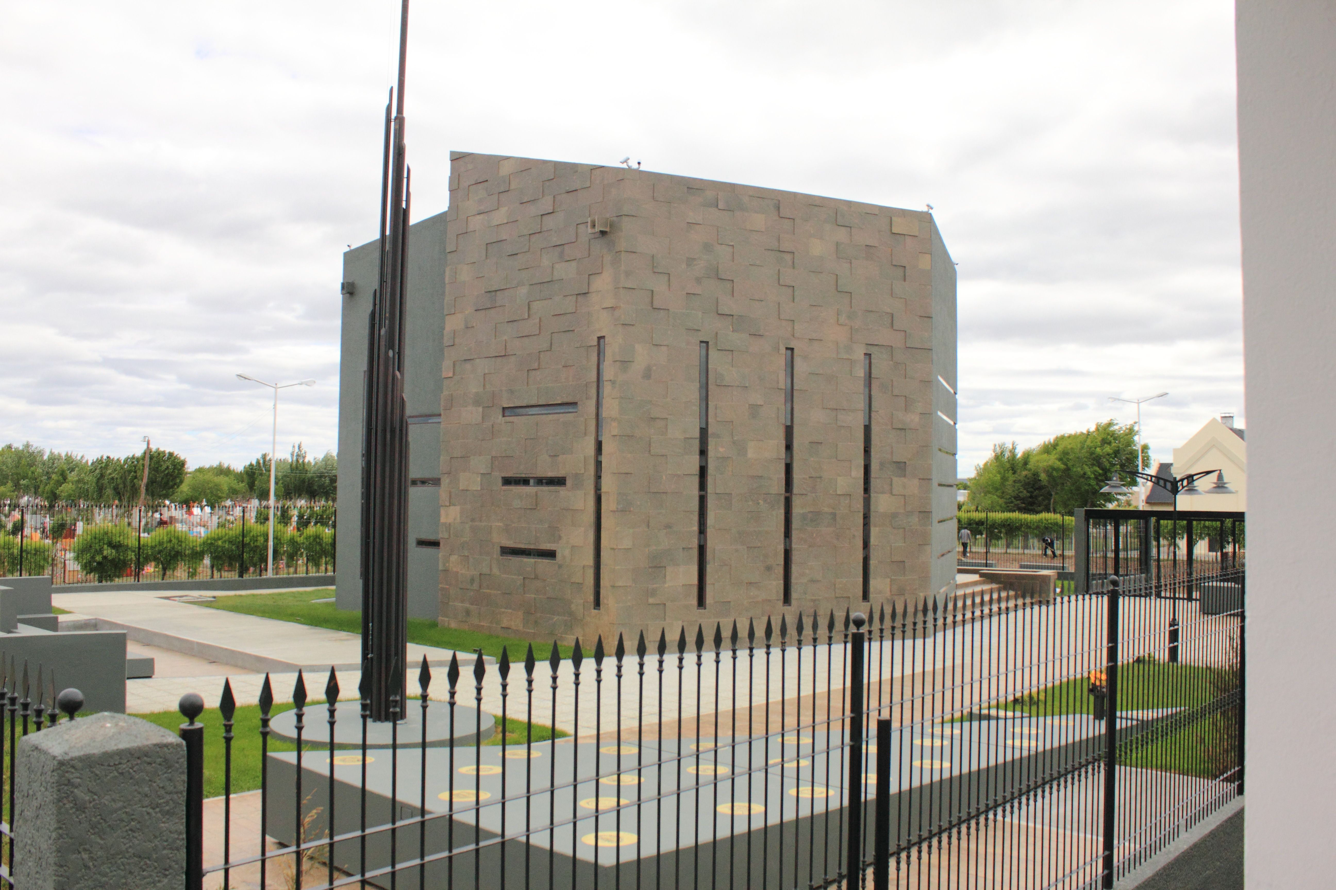 The Kirchner family mausoleum, completed in 2011 following the death of former President Néstor Kirchner. Río Gallegos, Argentina.